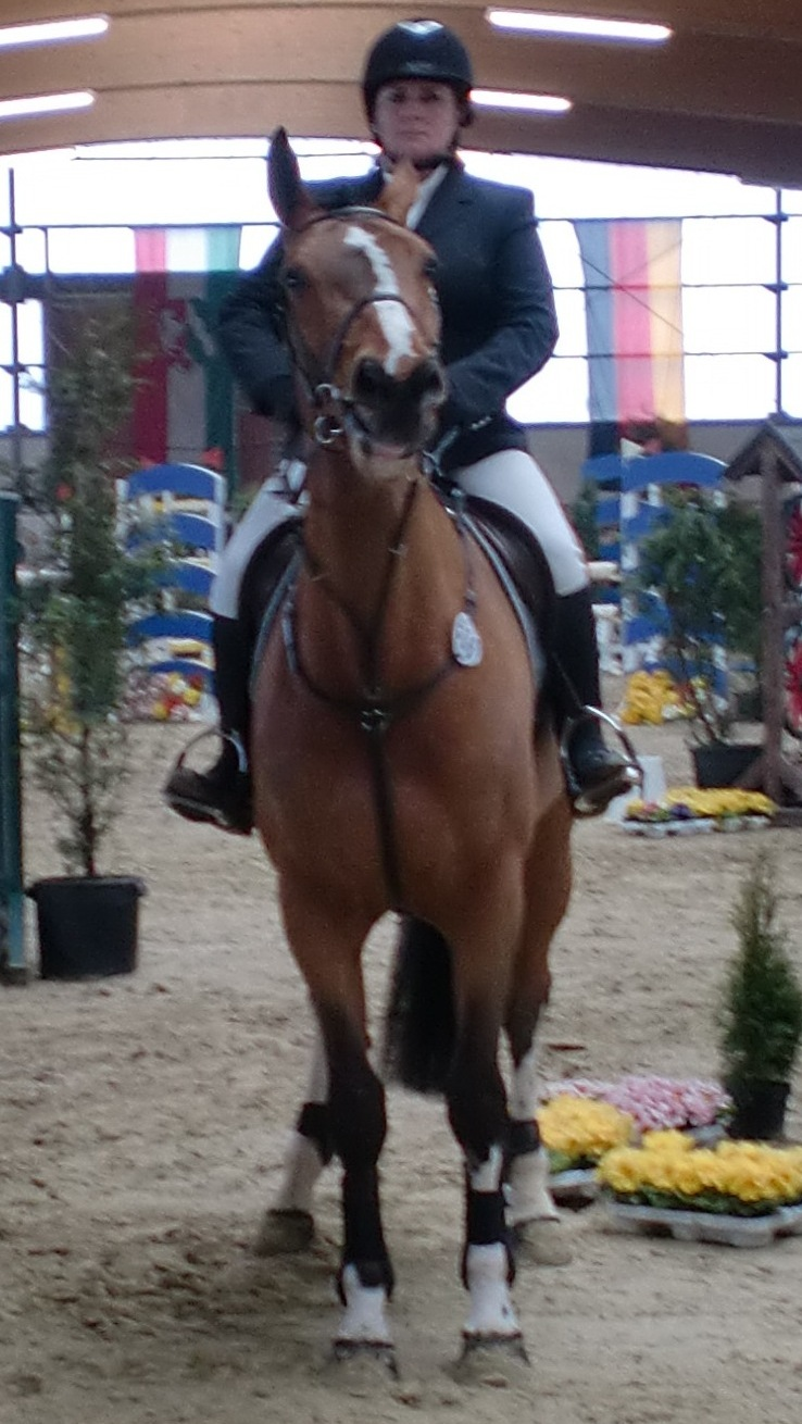 Helena Stormanns with "Quilano de Kreisker", price giving ceremony for a show jumping horse competition, Gut Neuhaus Indoors 2010, Grevenbroich (Germany)